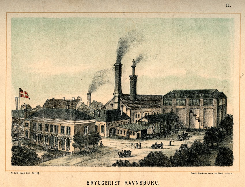 Former brewery in Tavnsborggade in Copenhagen, Denmark